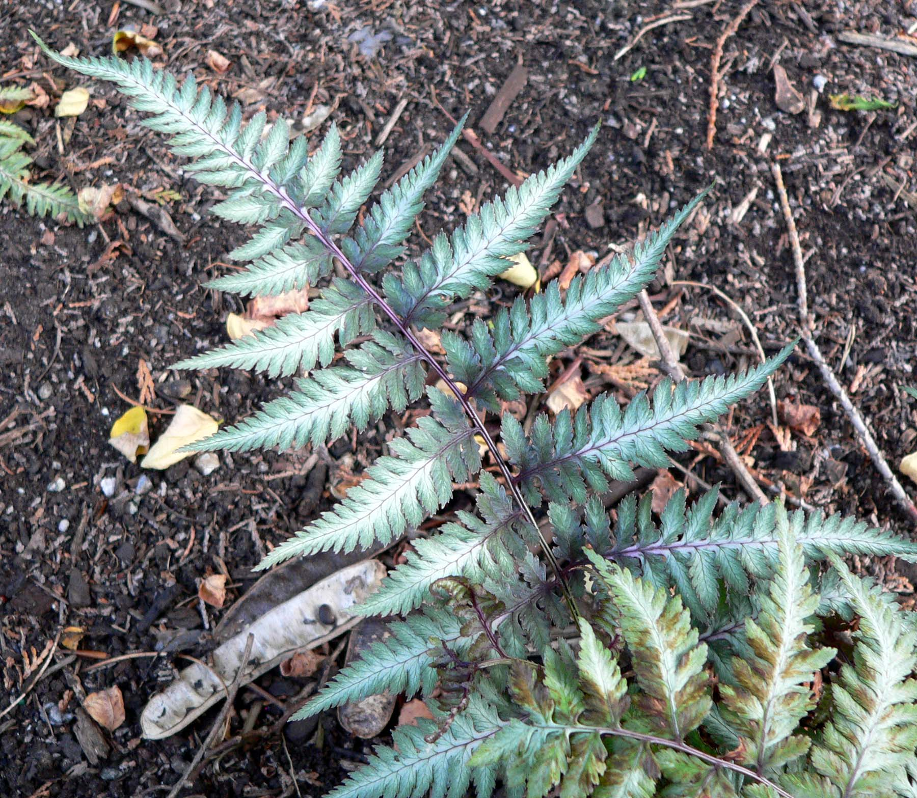 Photo of Athyrium niponicum var. 'pictum' at the VanDusen Botanical Garden in Vancouver